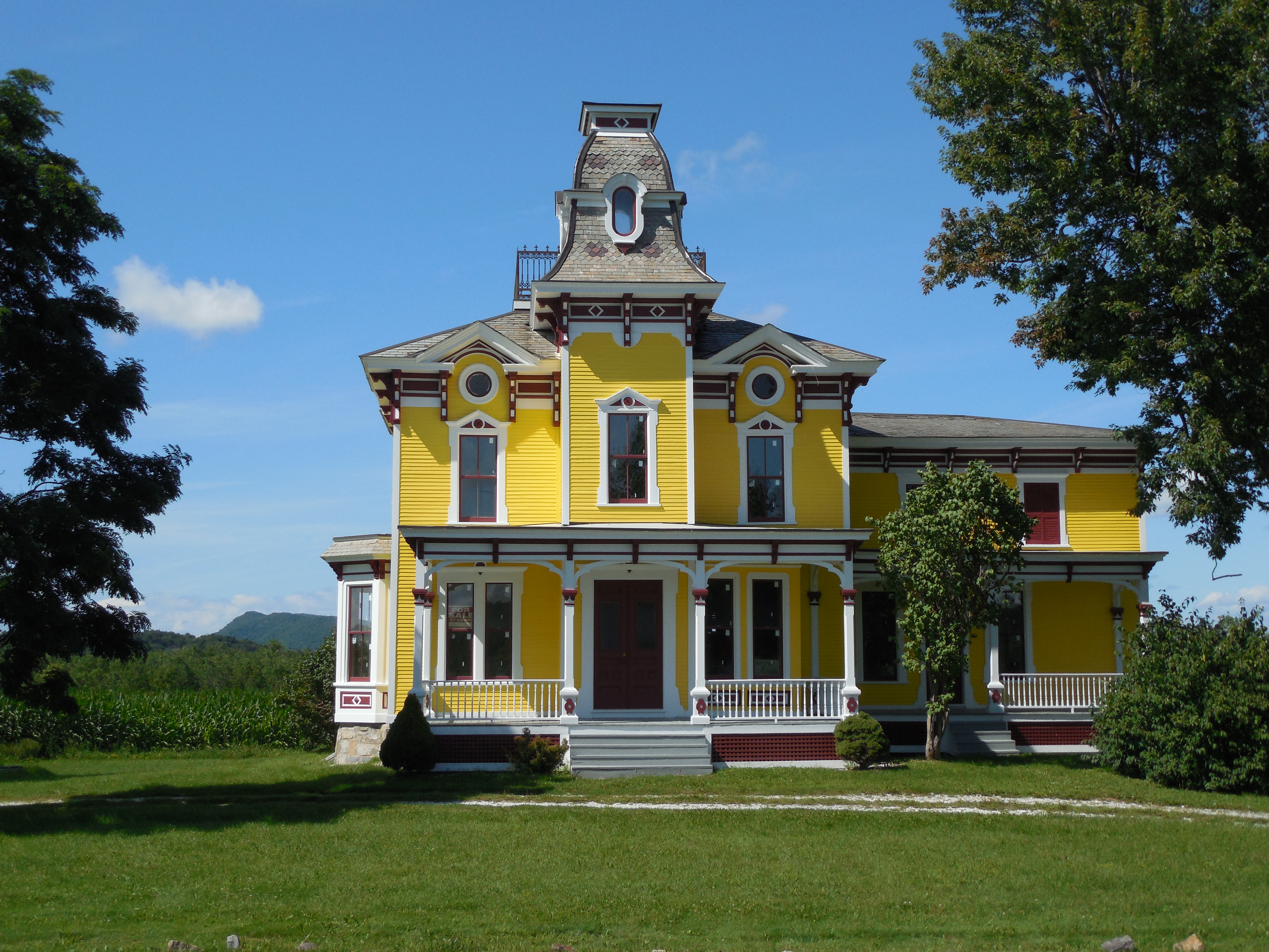 Frontal view of the Abram Foote house along VT Route 125 in Cornwall, Vermont, Aug 2014. Built circa 1878, this Italianate style building was added to the Vermont Division for Historic Preservation State Register in April 1976 (Historic Sites & Structures Survey # 0104-3). Snake Mountain is visible behind the house to the left.